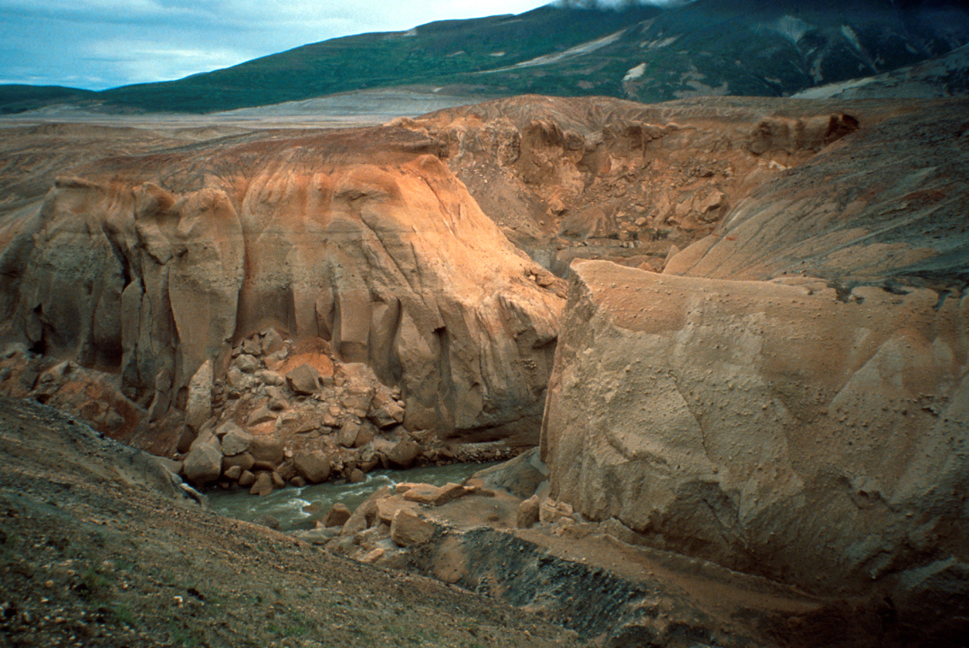 Katmai National Park and Preserve, Alaska. Cross section of the June 1912 ash flow exposed by the River Lethe in the Valley of Ten Thousand Smokes. In places, the ash flow is up to 200 meters (660 feet) thick.